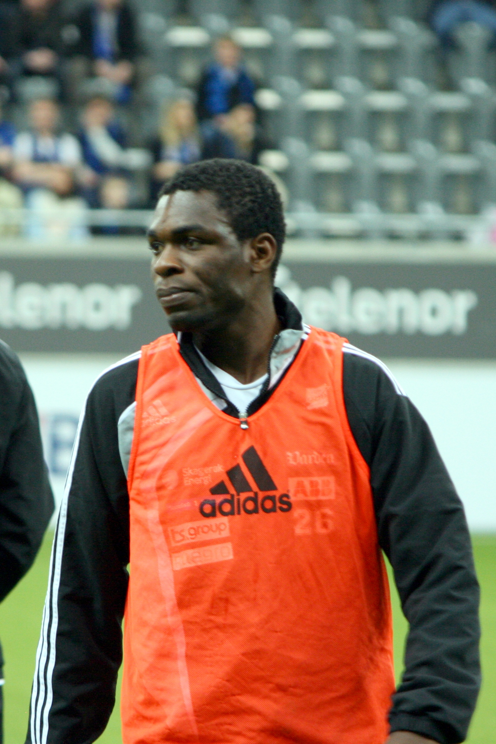 Footballer Chukwuma Akabueze.